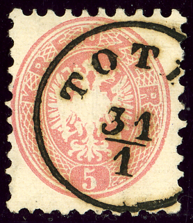 Austrian KK stamp 5 kreuzer, issue 1864, cancelled TOTIS, Hungary.